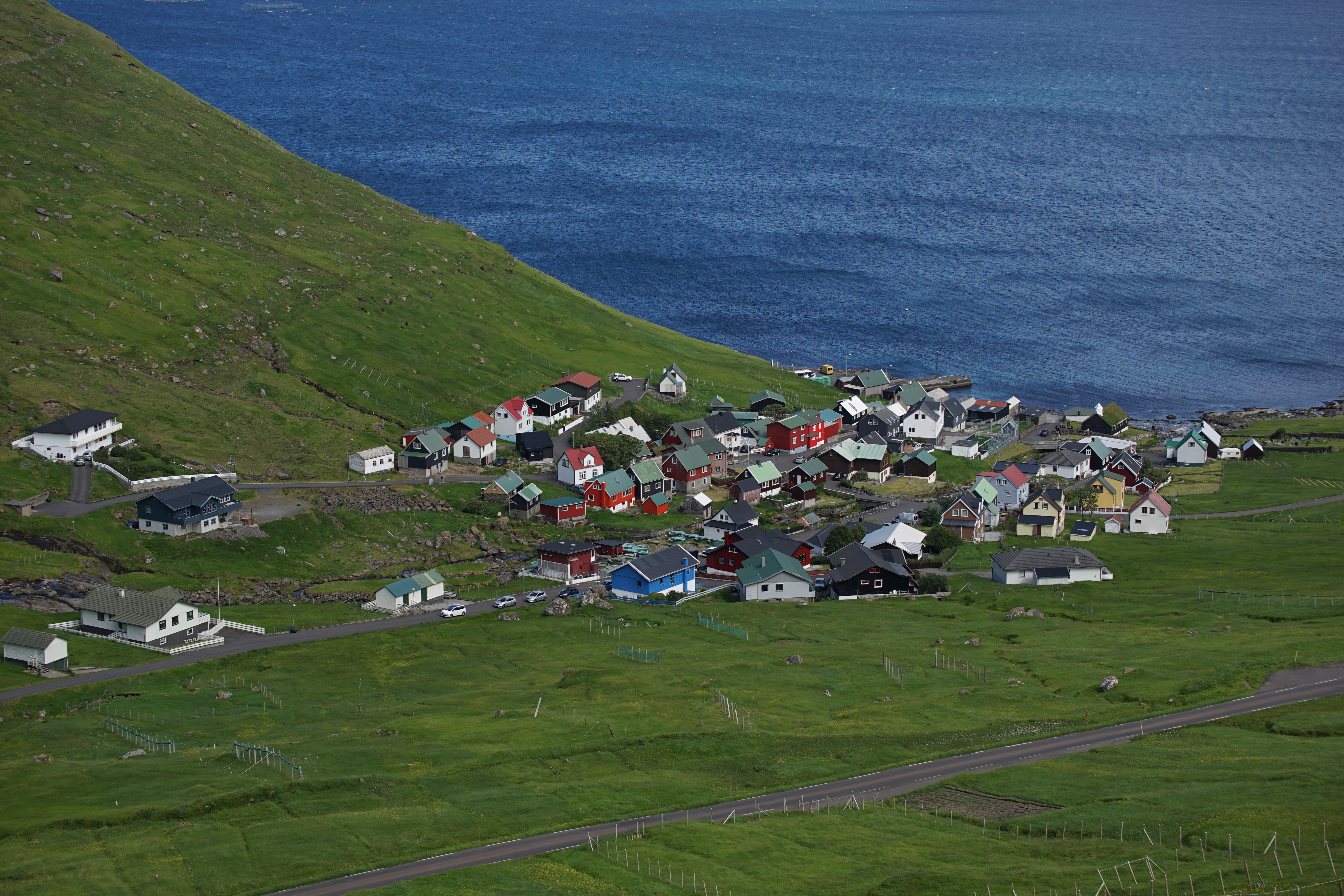 Funningur, 2018